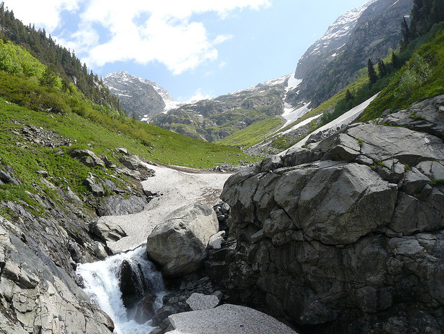 A view of Palas Valley in Khyber Pakhtunkhwa province of Pakistan.